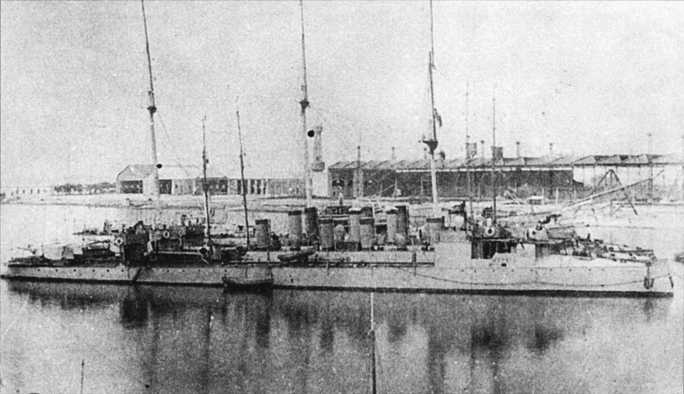 Russian destroyers Zharkii, Zorkii and Zvonkii at Bizerte, 1924.